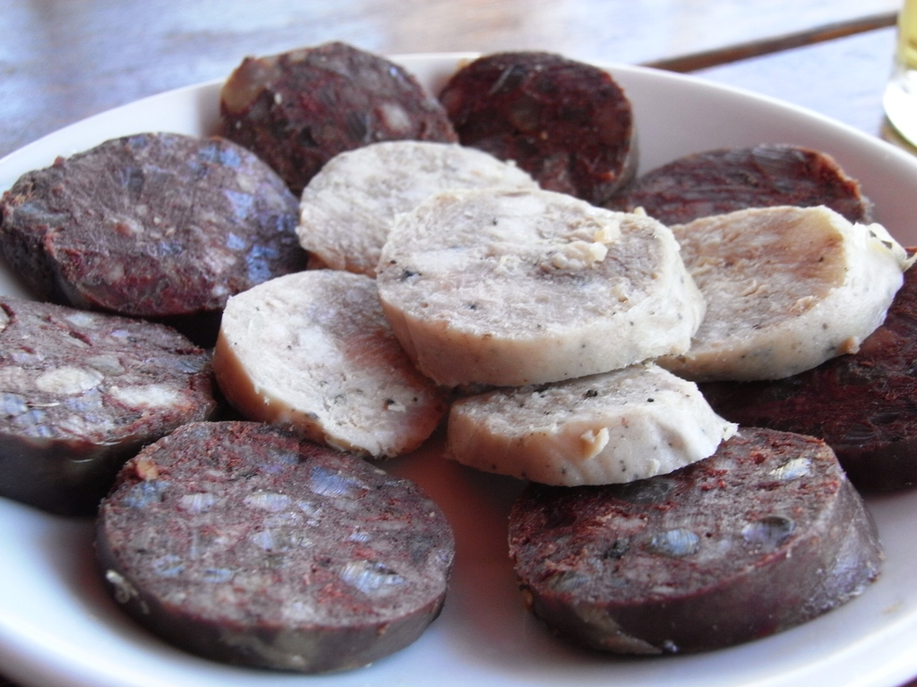 Black & white botifarra